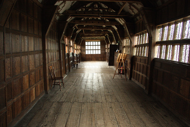 Long Gallery at Little Moreton Hall, Cheshire, England